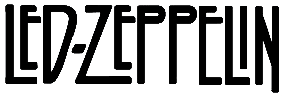 Wordmark of Led Zeppelin as found on Houses of the Holy album